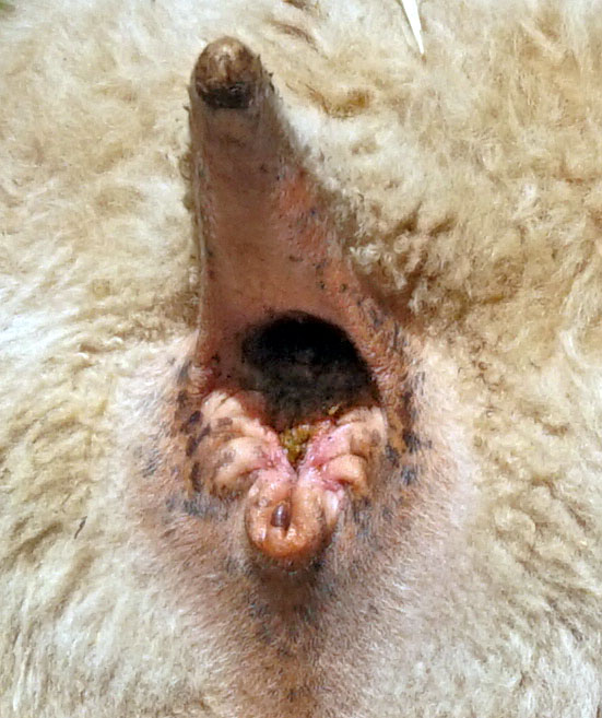 A anus of a sheep during defecating. Ysitien lemmikki zoo in Jyväskylä, Finland.